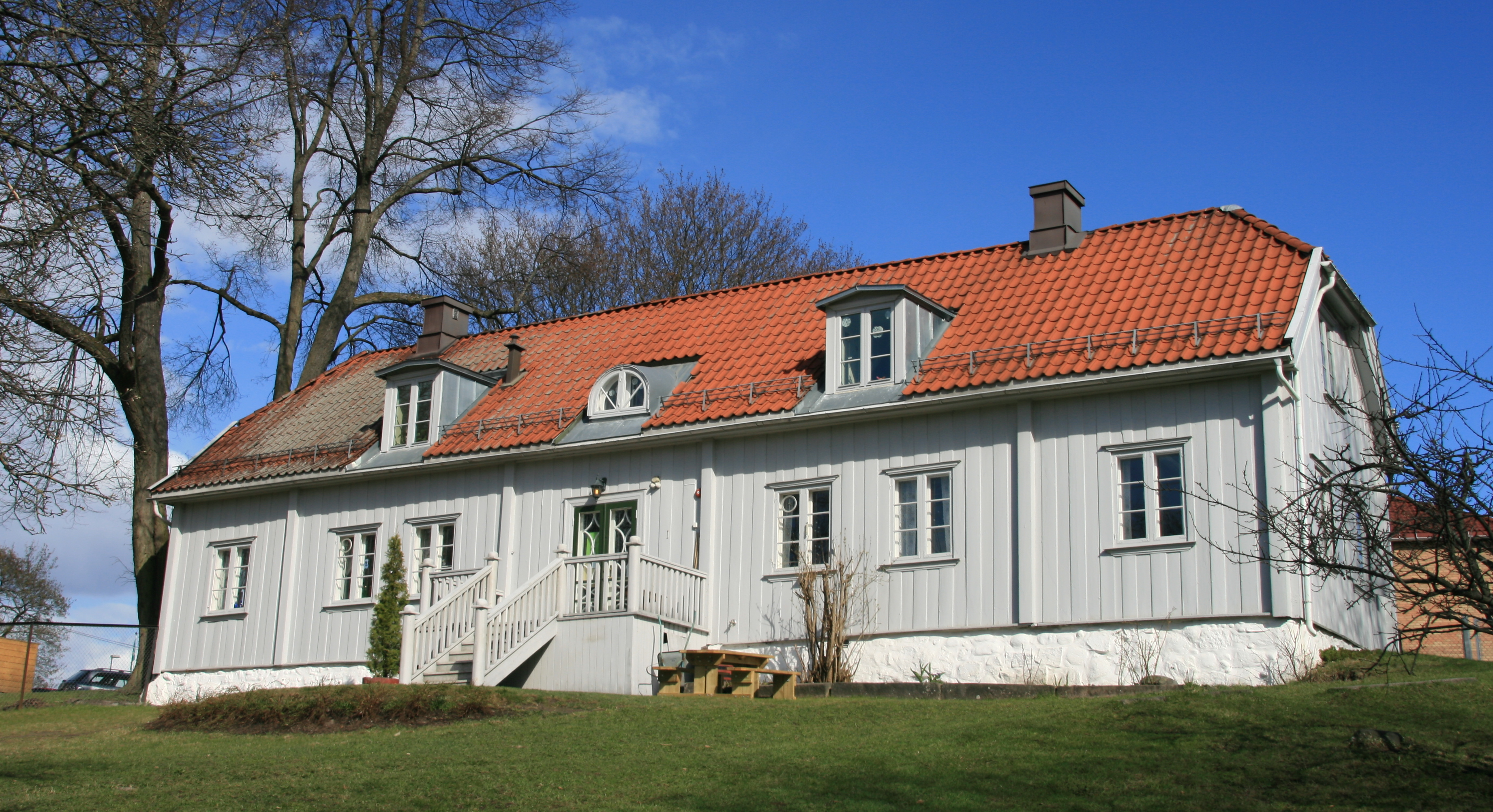 Teisen farm, main building, Oslo